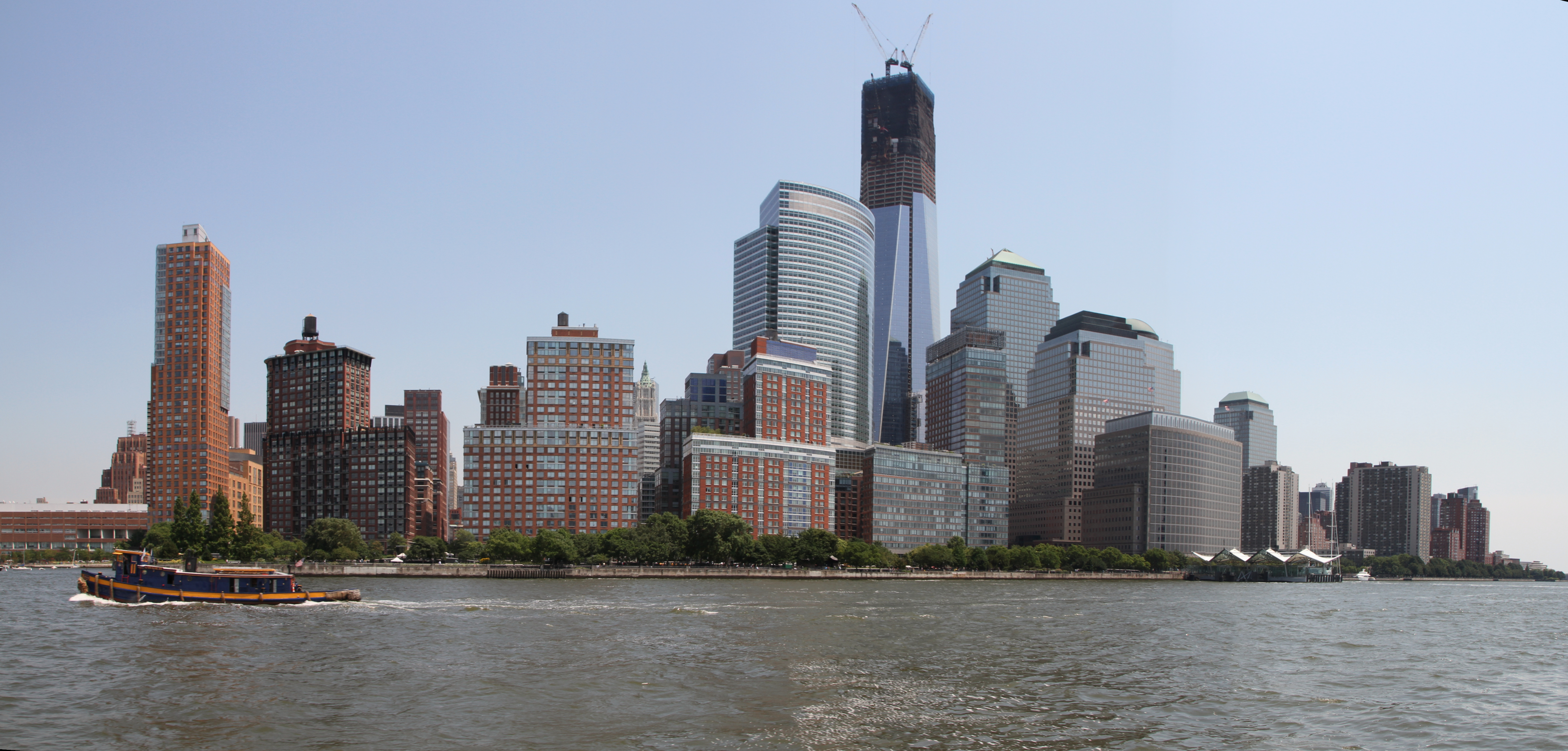 Panorama of New York lower Manhattan, with the New World Trade Center.